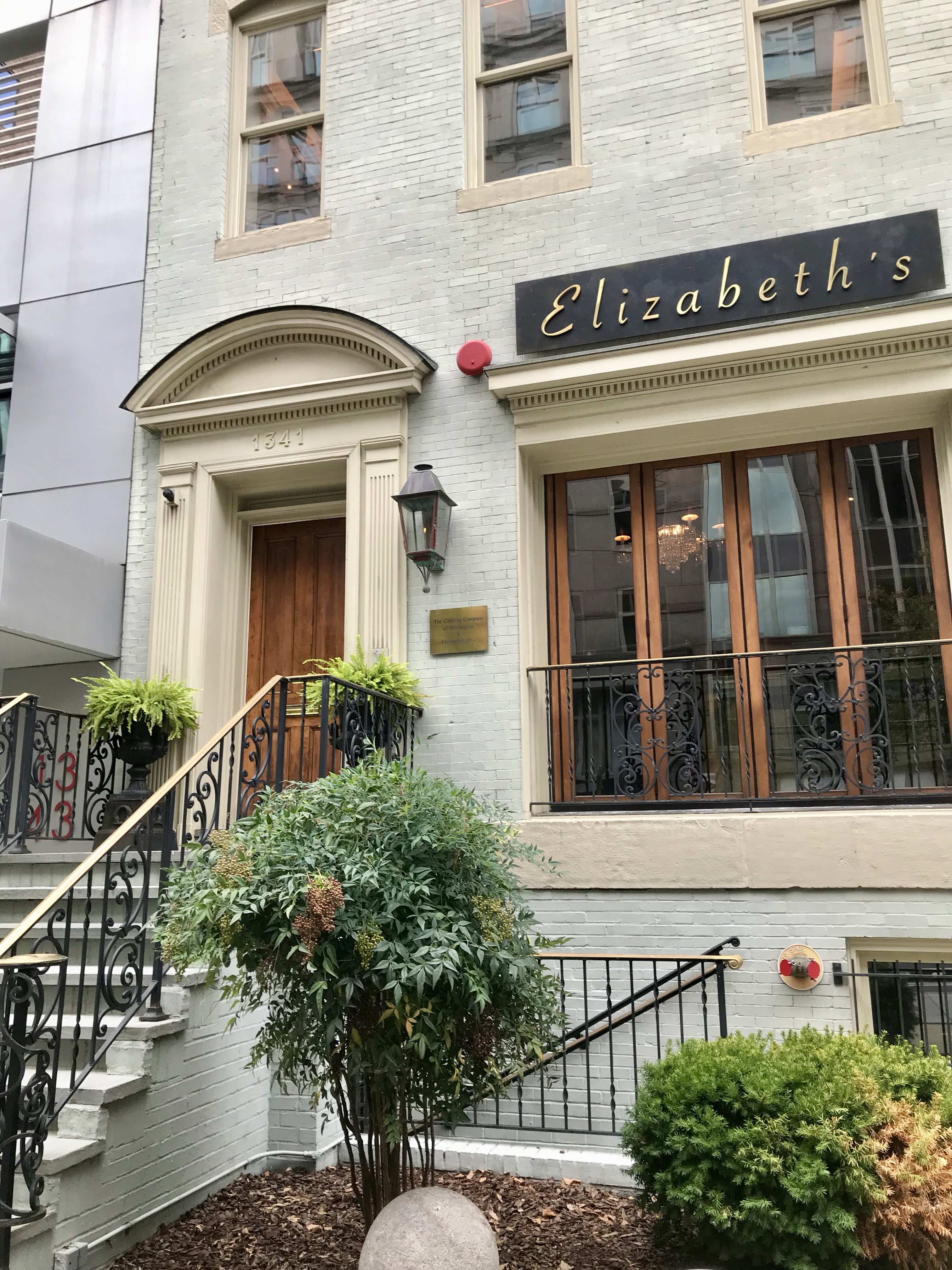 Elizabeth's Gone Raw in Washington DC, exterior